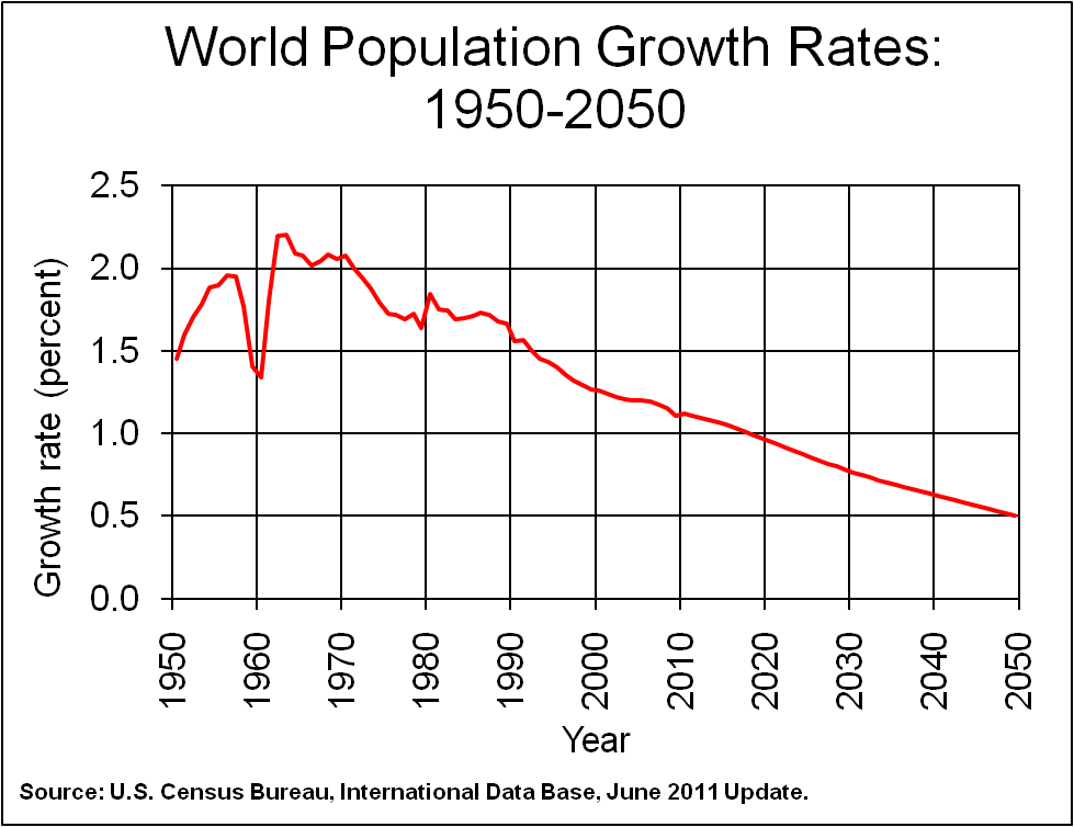 U.S. Census International Data Base, June 2011 update. Estimated world population growth rate.